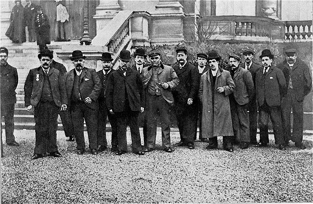 British fishermen in Paris to testify before the International Commission of Inquiry on the Dogger Bank Incident. French magazine L'Illustration, 28 January 1905